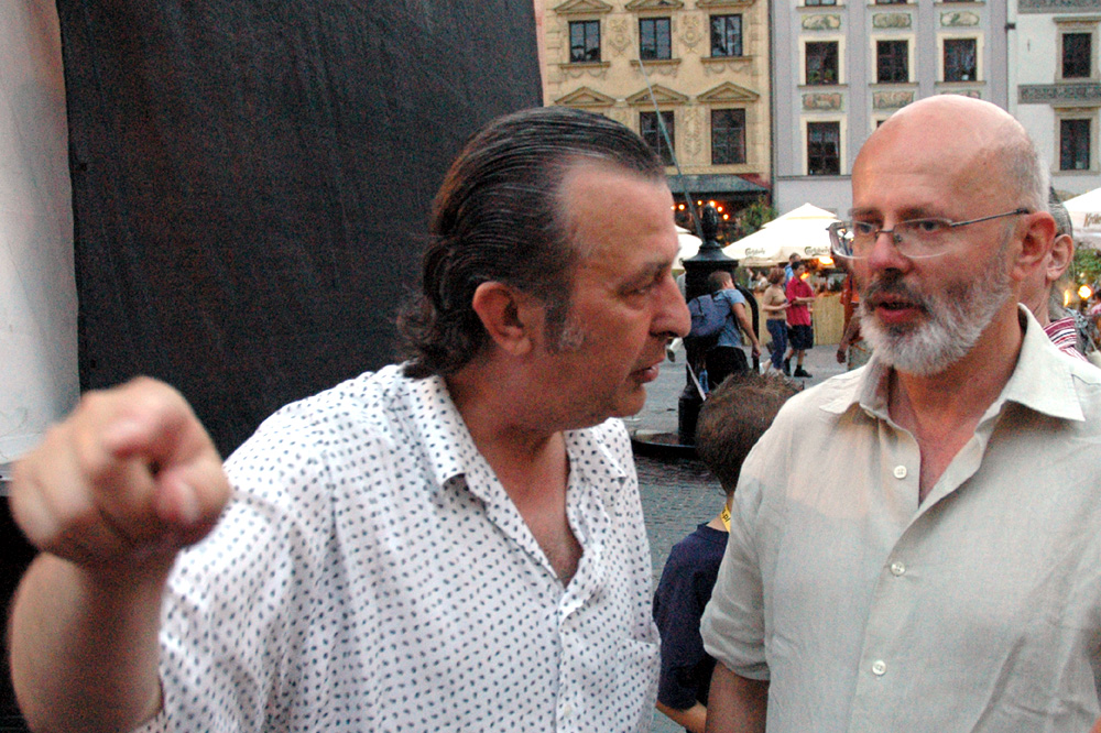 (right) Marek Garztecki - a multifaceted personality from Warszawa, Poland. Photographed during an open air jazz concert in the Old Town's Square, talking with Slawomir Kulpowicz.